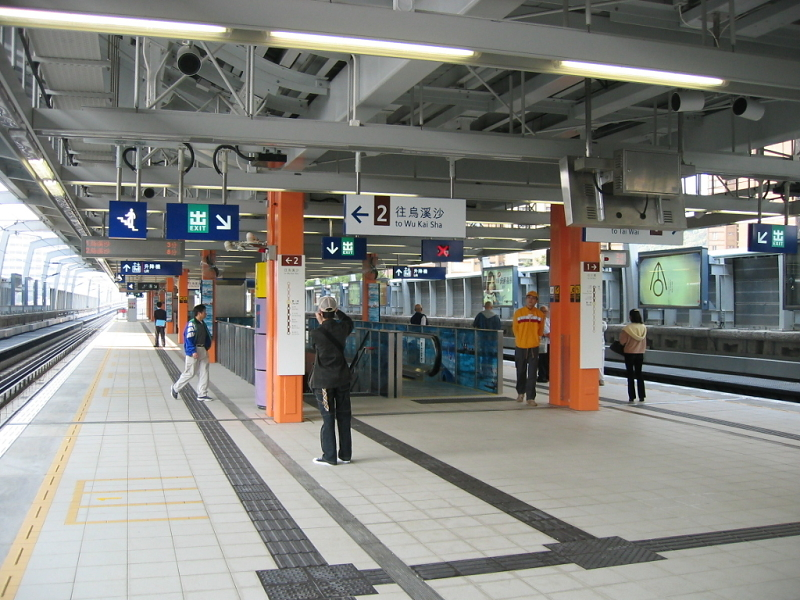 HK KCR MOS Railway Cityone Station